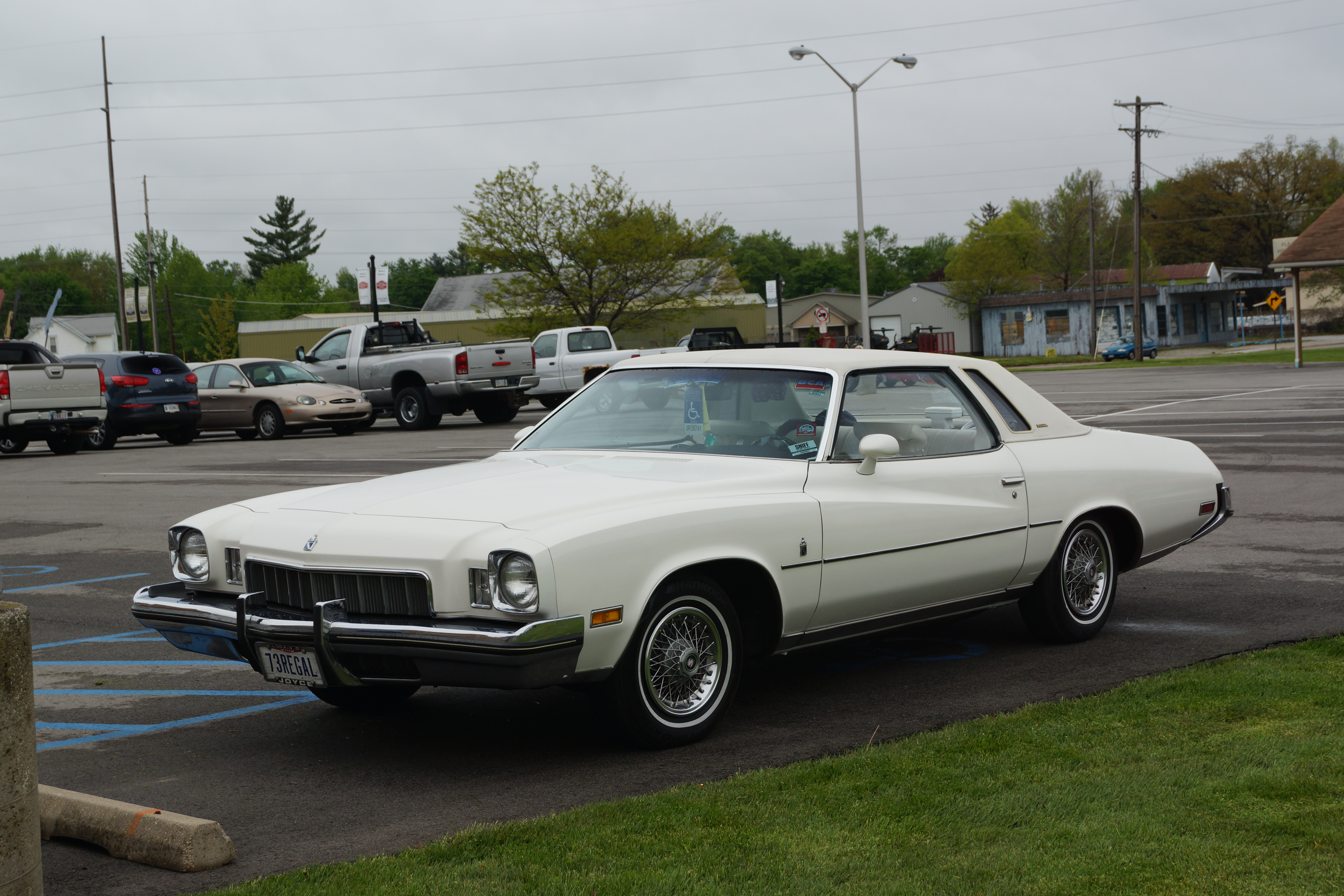 Click here for more car pictures at my Flickr site. Or here for my Car Crazy Tumblr site. Or on Twitter @DVS1mn.